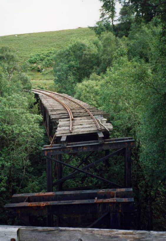 Original photograph Signalhead 22:29, 22 January 2007 (UTC)